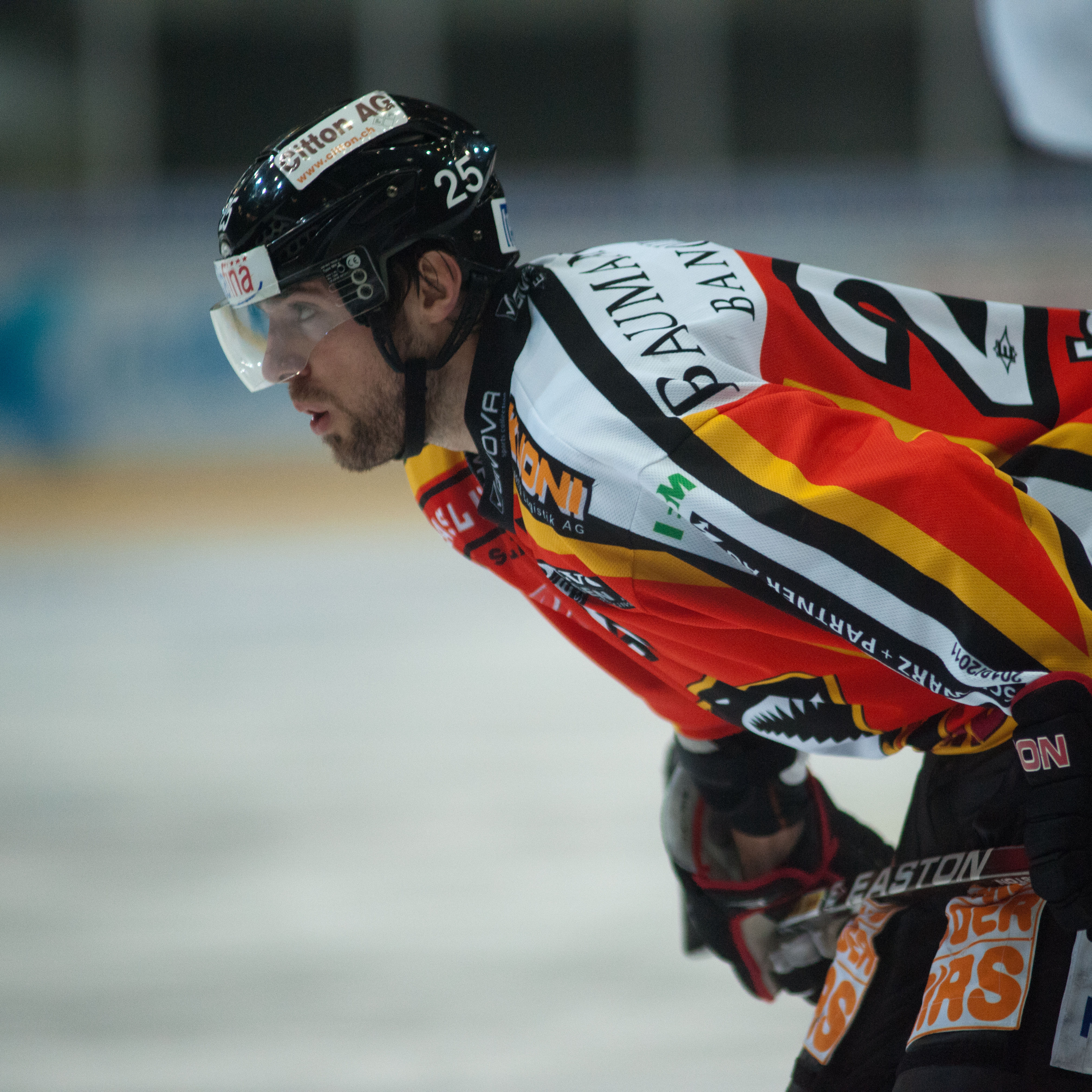 The making of this document was supported by Wikimedia CH. (Submit your project!) For all the files concerned, please see the category Supported by Wikimedia CH.